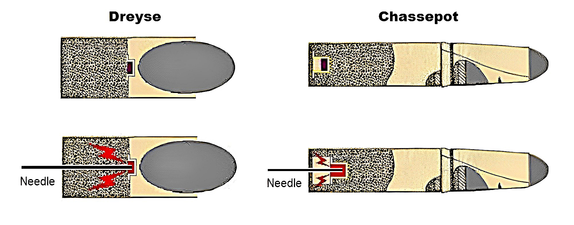 Compare Dreyse and Chassepot cartridge